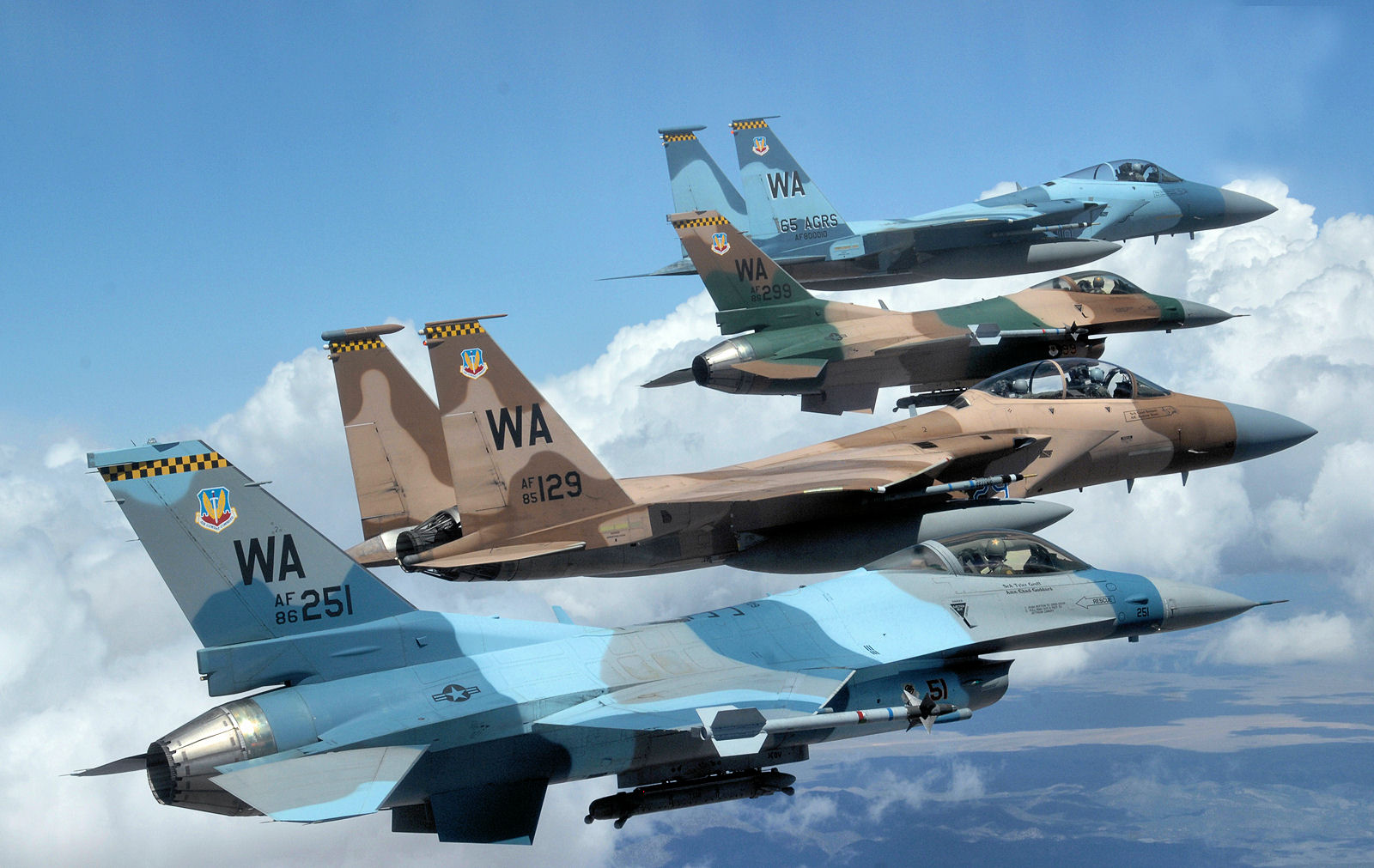 A flight of Aggressor F-15 Eagles and F-16 Fighting Falcons fly in formation over the Nevada Test and Training Ranges on June 5, 2008. The jets are assigned to the 64th and 65th Aggressor Squadrons at Nellis Air Force Base, Nev. The Aggressor mission is to prepare the combat air forces, joint and allied aircrews for tomorrowÕs victories with challenging and realistic threat replication, training, academics and feedback. (U.S. Air Force photo/ Master Sgt. Kevin J. Gruenwald)